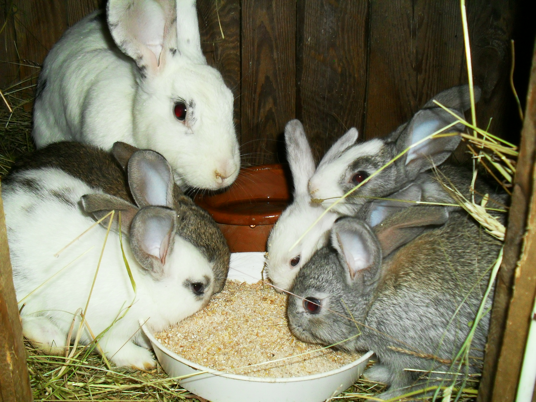 Domestic rabbits eating in Vendvidék (Slovensko Porabje), Hungary